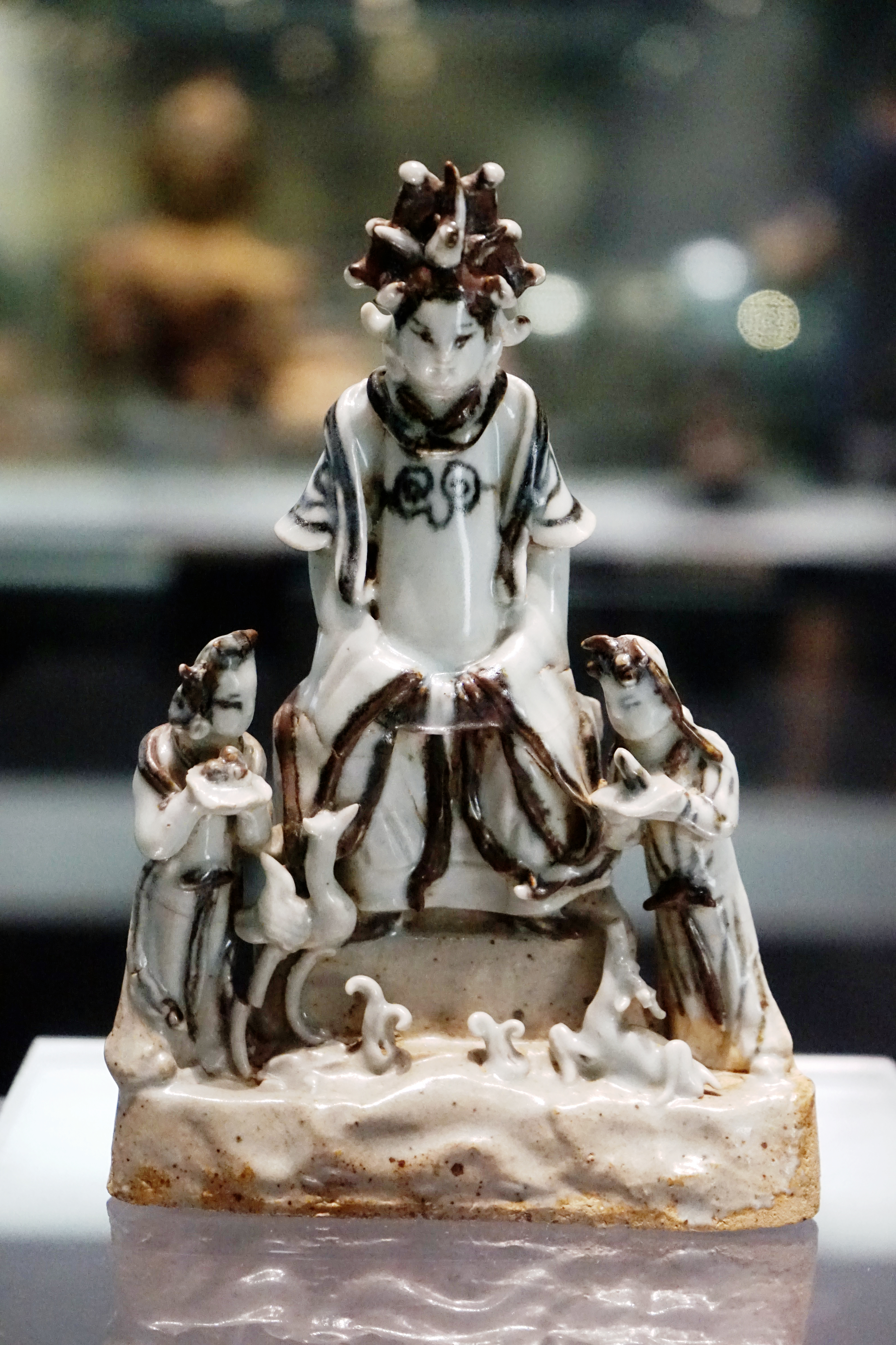 中文（中国大陆）: Jingde-kiln Green-and-white-glazed Porcelain Statue of Goddess of Mercy. Yuan Dynasty. Unearthed in the dormitory construction site of Radio School on Wensan Street, Hangzhou in 1978.杭州市文三街无线电学校宿舍工地出土。